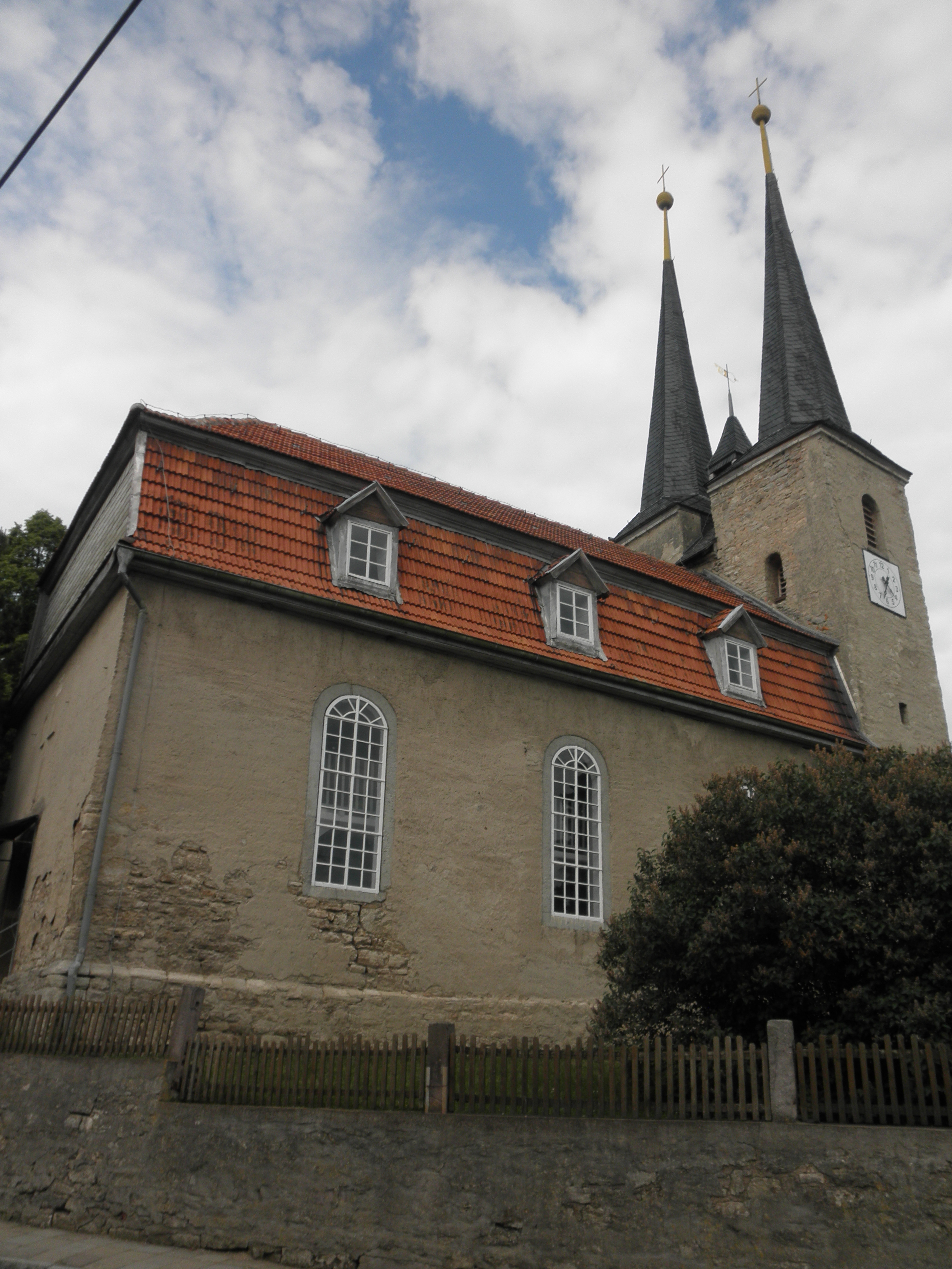 Church in Westerengel (Großenehrich) in Thuringia